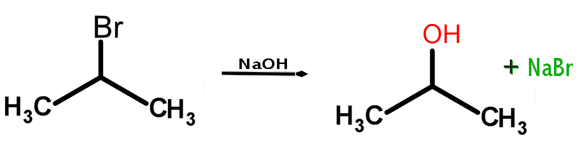 Isopropanol synthesis from 2-iodo-propane